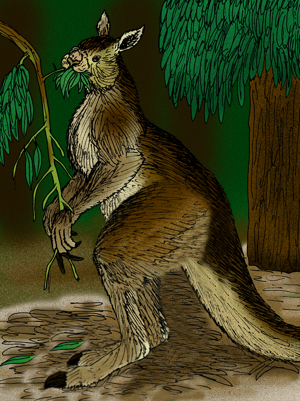 reconstruction of the Late Pleistocene kangaroo, Procoptodon goliah, the "Giant Short-faced Kangaroo" of Australia.